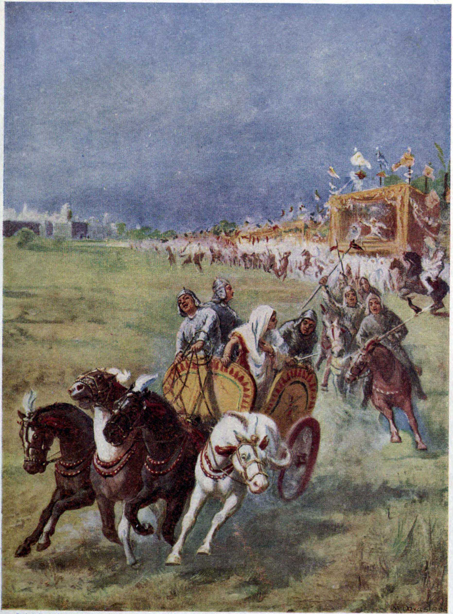 Turning point of Indian History